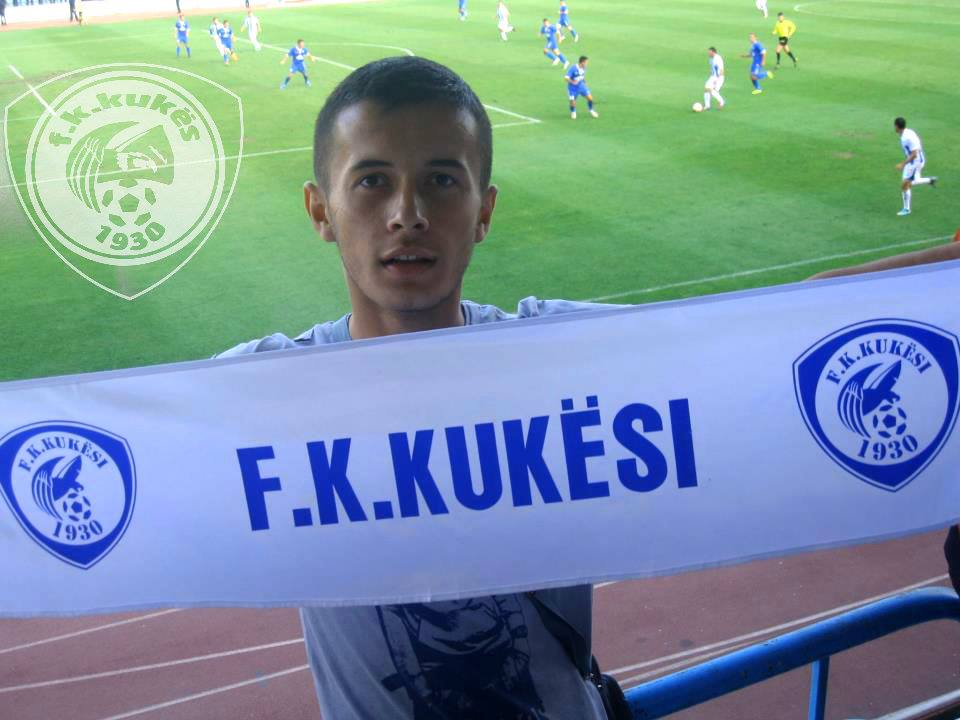 fk kukes U17